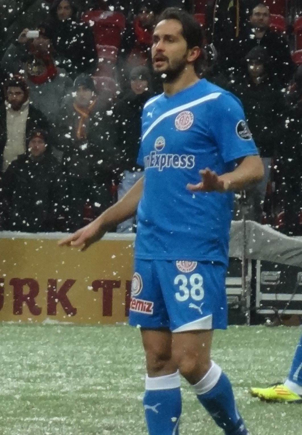 Ali playing against Galtasaray